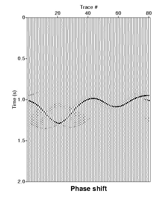 Phase shift migration of a simple syncline synthetic dataset.